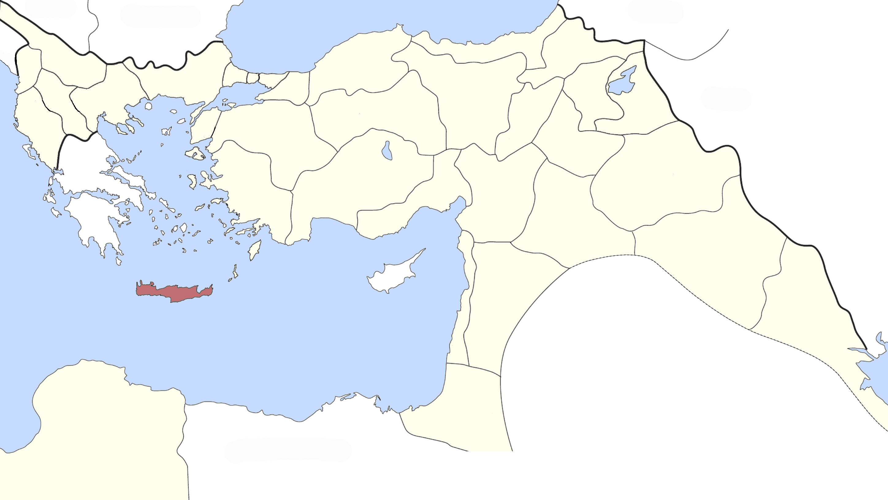 XY Vilayet, Ottoman Empire (1900). Source: Ottoman Brothers: Muslims, Christians, and Jews in Early Twentieth-Century ... at Google Books By Michelle Campos